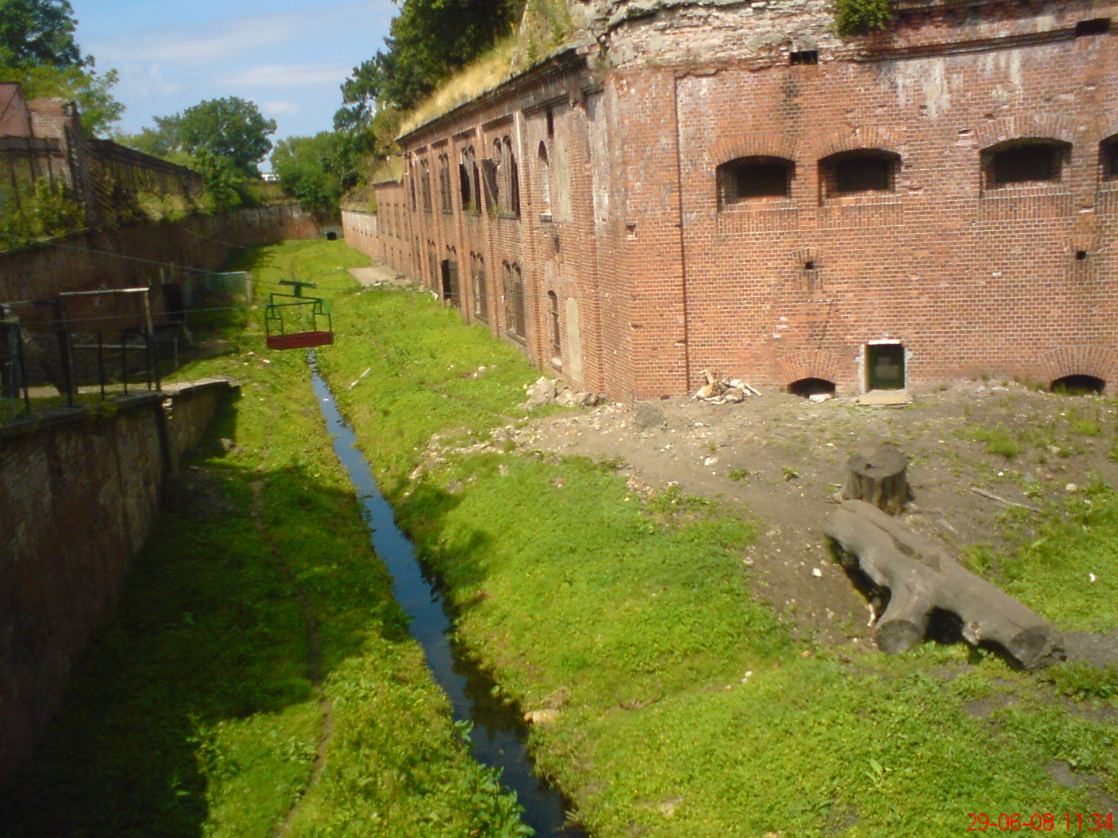 Fort IV, Toruń Fortress